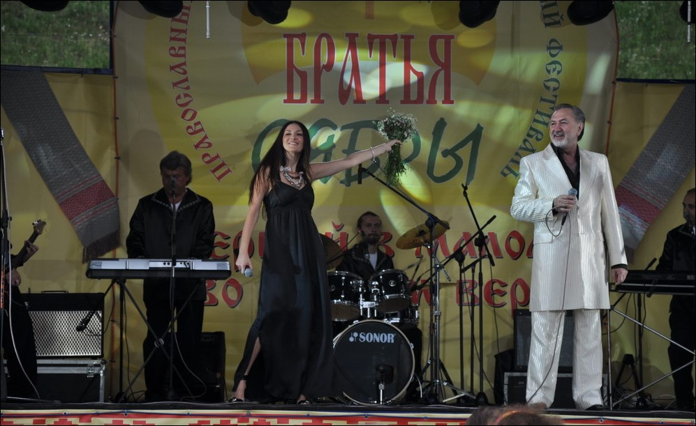 Band "Syabry" at the Orthodox International Youth Festival "Bratya" in Silichi